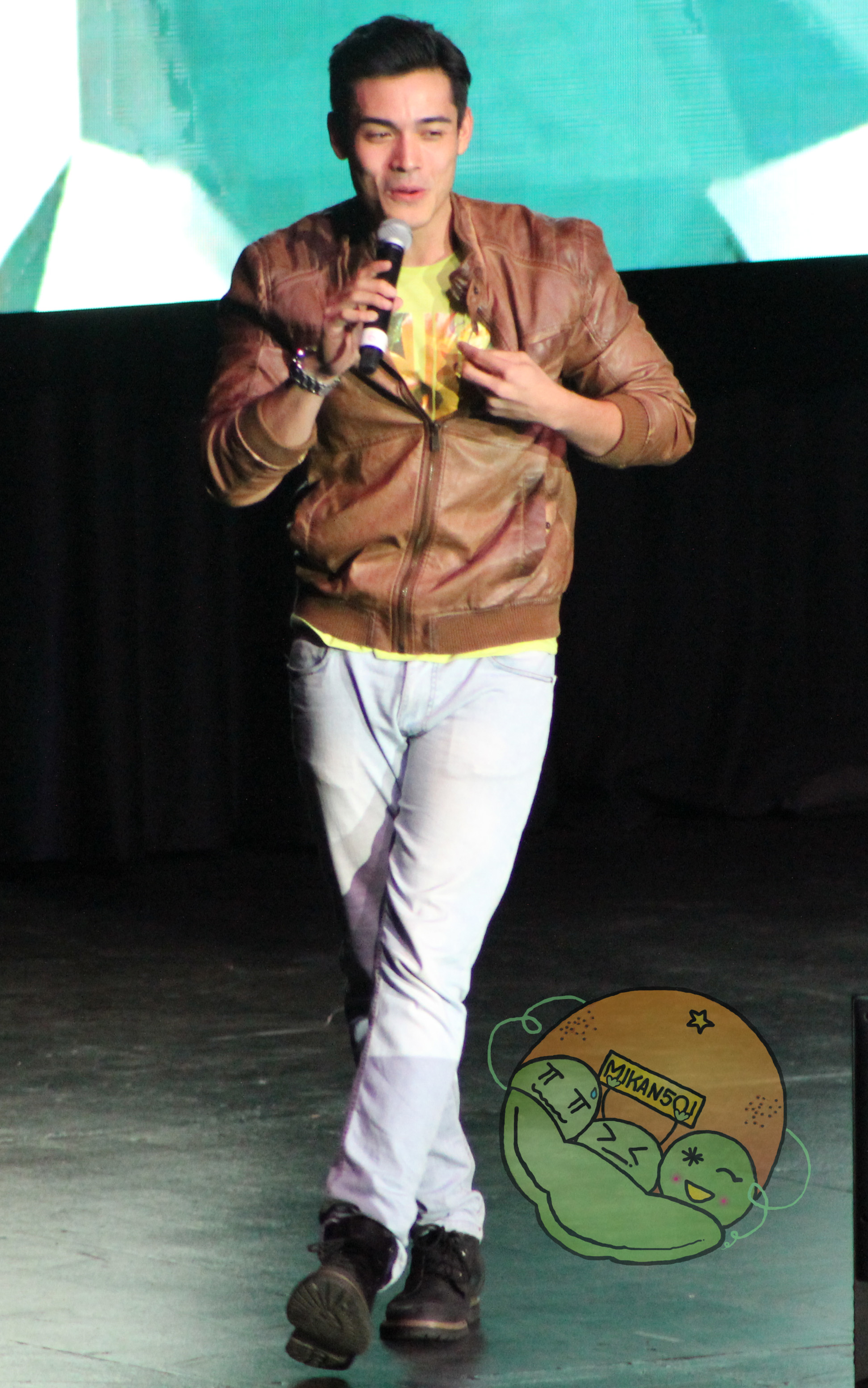 Xian Lim singing during ABS-CBN's concert tour "One Kapamilya Go" in Toronto, Ontario on June 21, 2014